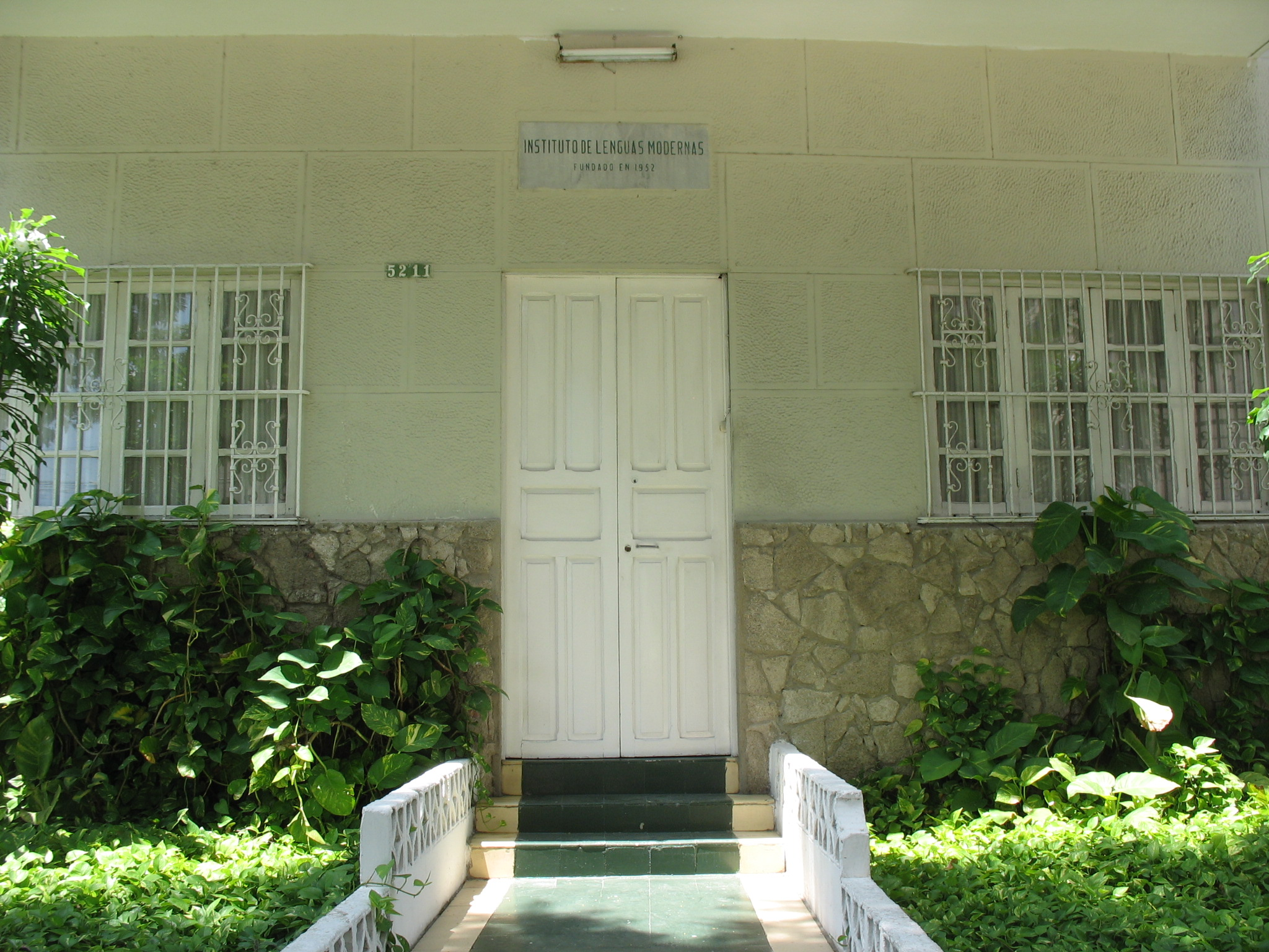 Barranquilla - Modern Languages Institute